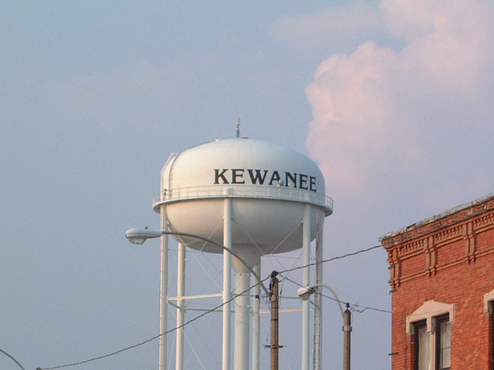 A view of the Kewanee, Illinois water tower from N. Tremont St.